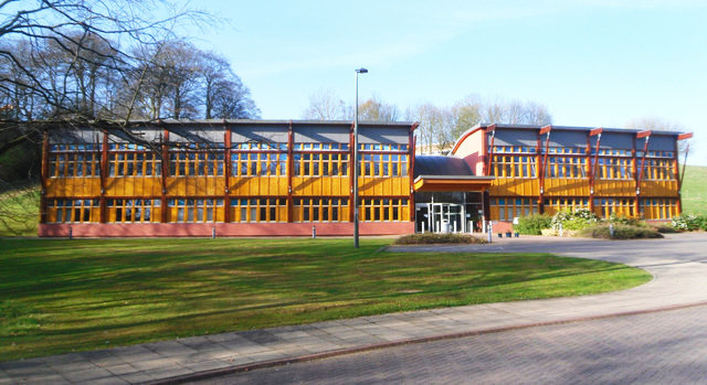 Al-Qasimi Building